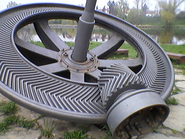 This double-helical bevel gear was made by Citroen (note the similarity of the company logo!) and installed around 1927 in the Miřejovice small power plant on Vltava, to transfer the torque of the Francis turbine to the generator. The diameter of the bigger wheel is ca. 2 meters. It worked flawlessly until 2011, when it was moved to the park in the nearby town Kralupy as a technical monument.